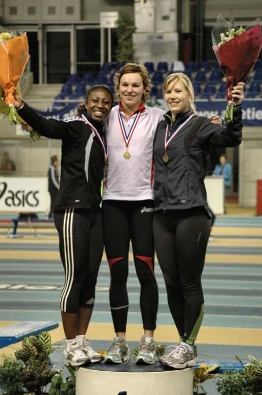 Mami Awuah Asante, a former Dutch athlete